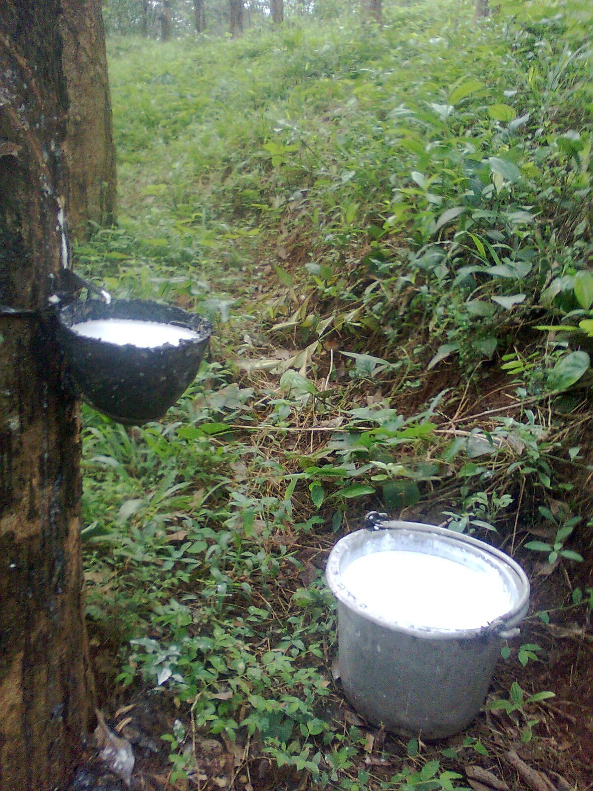 A filled cup of natural latex from a tapped rubber tree besides a bucket full of natural latex. Collected by irvin calicut, this picture is taken from the rubber plantation of Nellikunnel family in Thottumukkom in Kozhikode district of the southern Indian state, Kerala